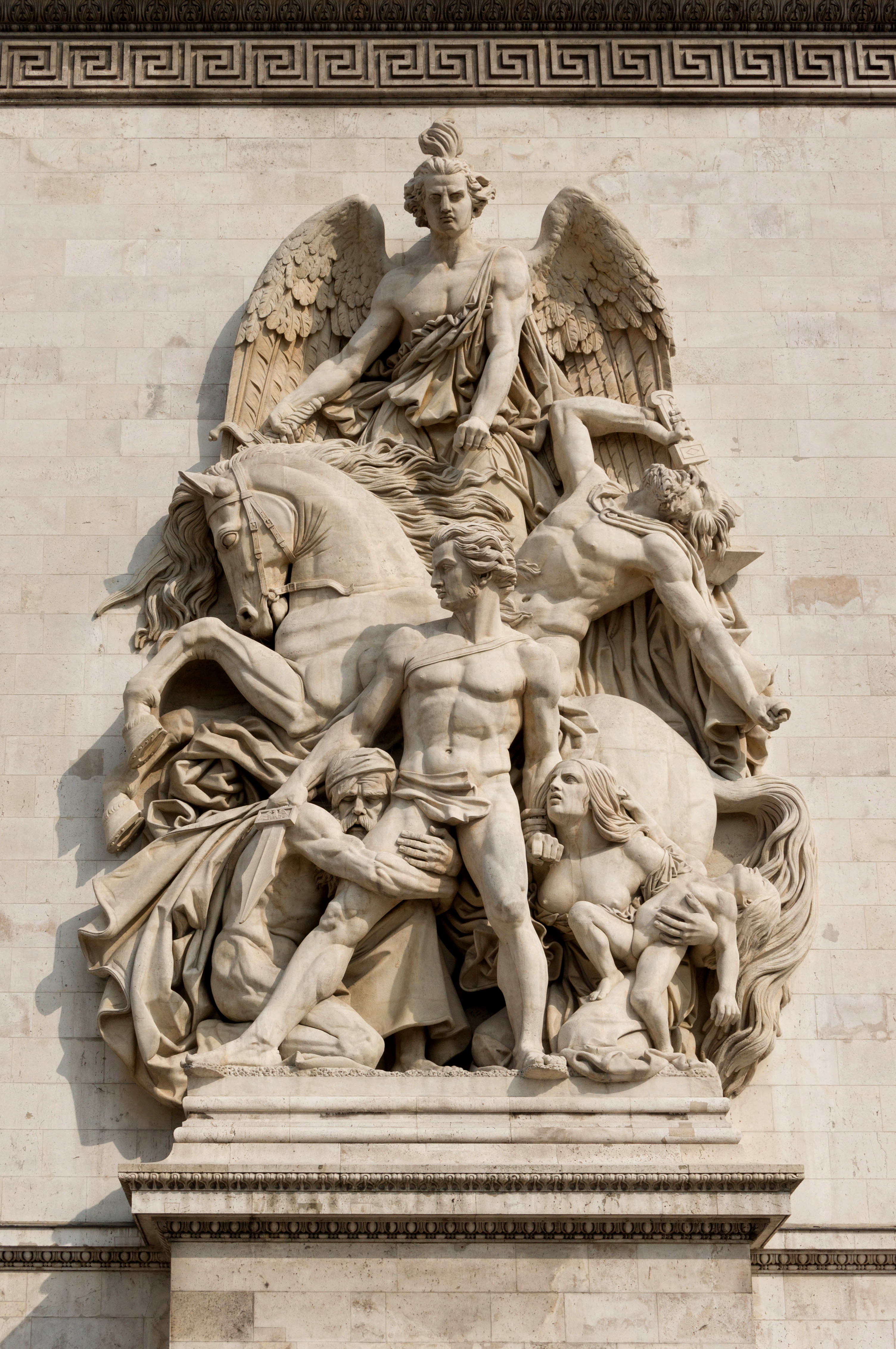 "The Resistance of 1814", relief by Antoine Étex, Arc de Triomphe de l'Etoile, Paris, France.